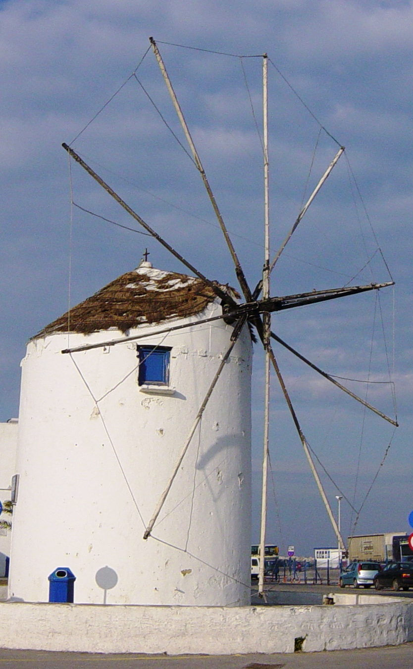 Windmill on Paros, an island of the Cyclades group and typical of windmills in this region. Owing to strongly directional prevailing winds these are not rotated. They were rigged with triangular sails for operation, grinding grain brought from mainland Greece in exchange for a 1/10 share of the flour.